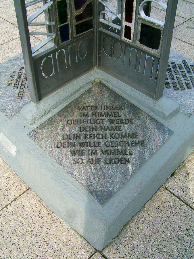 sculpture in Schorndorf, Germany